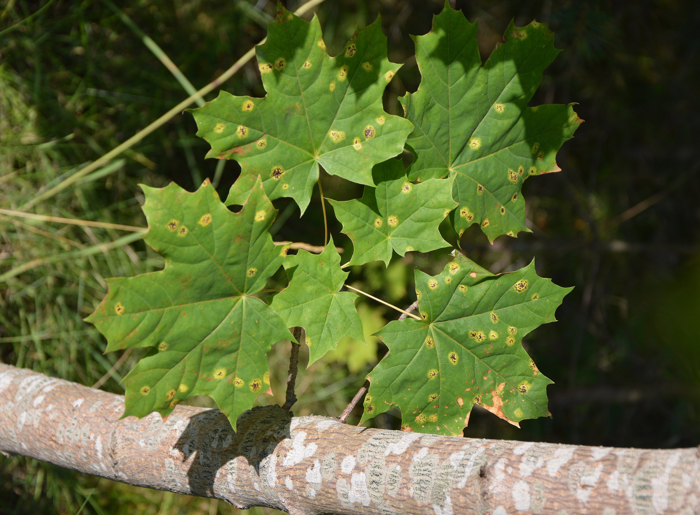 Rhytisma acerinum